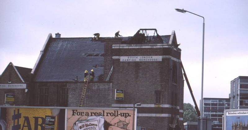 Firefighters on the roof of the South London Camping Warehouse, New Kent Road, London SE1 after a suspicious fire in the summer of 1980. The building was at the junction with Theobald Street [1] and was formerly the church hall of St Andrew's parish church. ( It was demolished after the fire and is ow the site of a BP filling station.